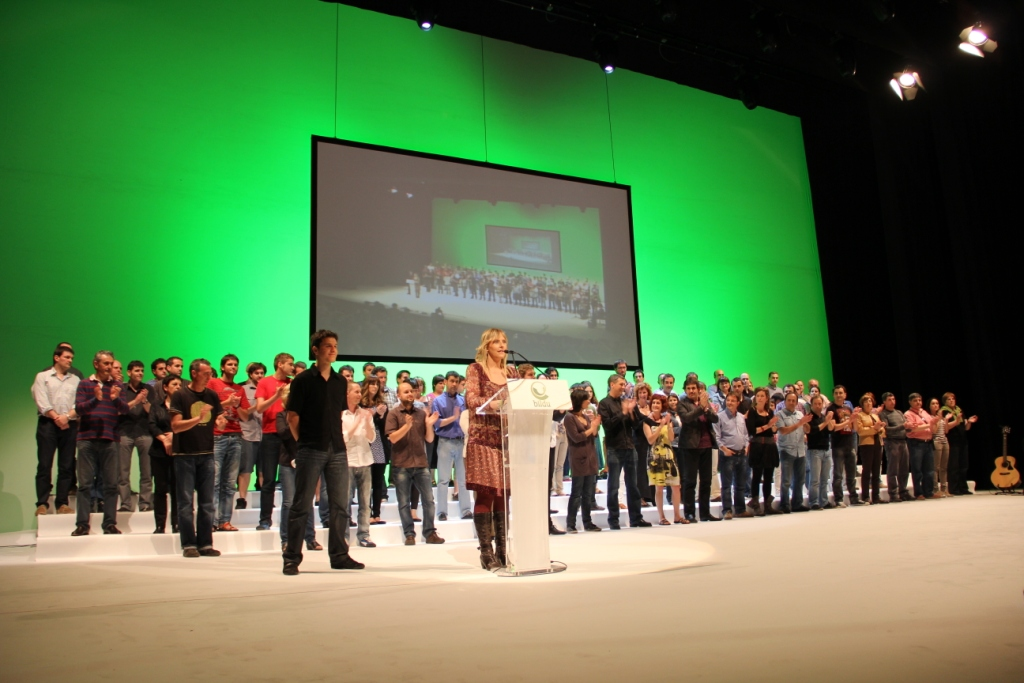 Bildu coalition public meeting in Kursaal